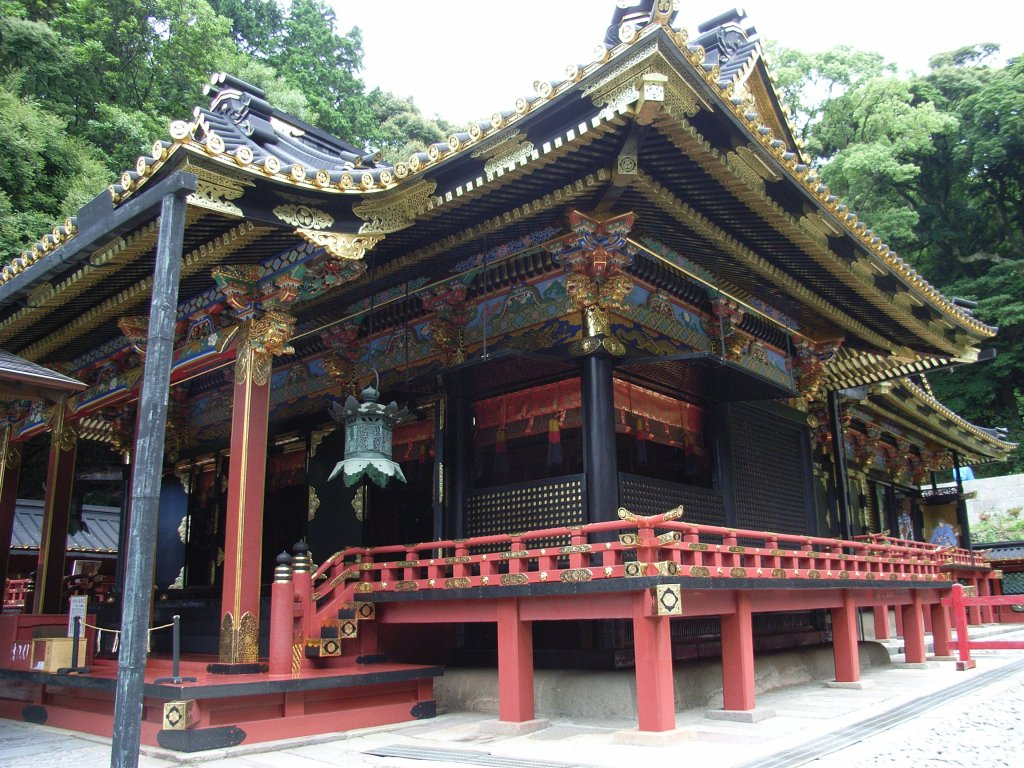 Haiden of Kunōzan Tōshō-gū, in Shizuoka, Japan